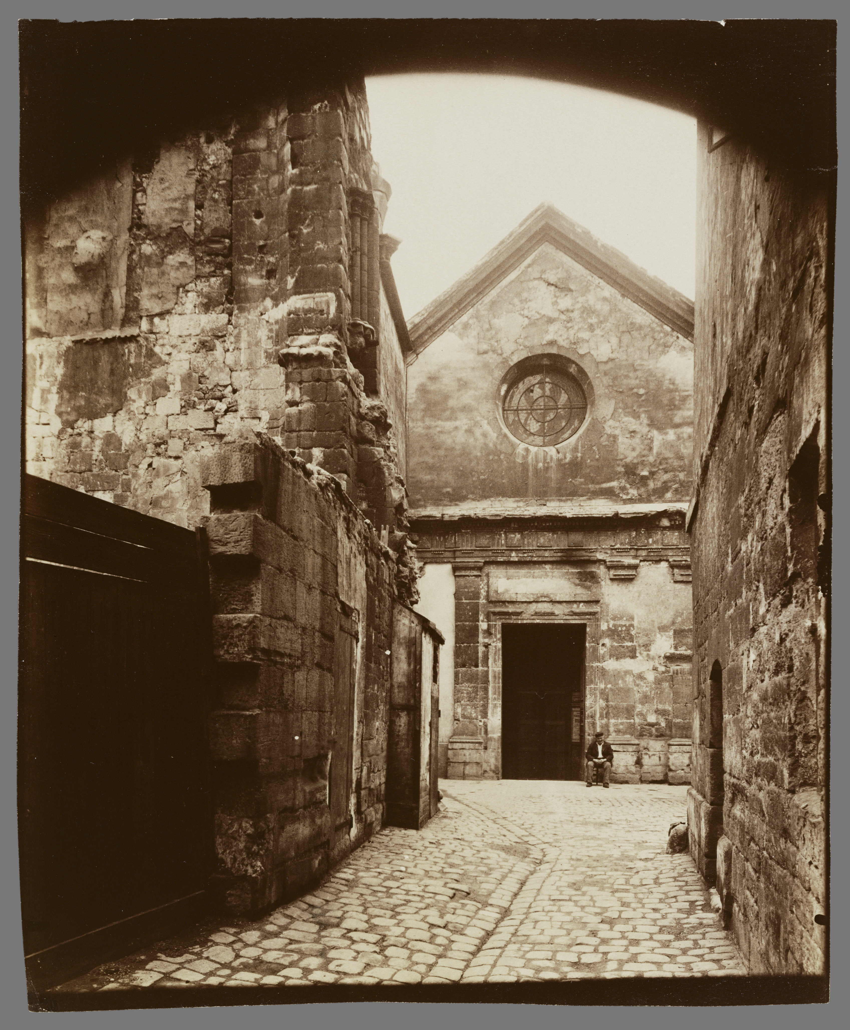 In this photograph of an alley leading to the facade of Saint Julien le Pauvre, a church built in the 1100s, the viewer's eye follows along the sloped gutter in the center of a cobblestone street. As the drain veers left, the viewer's eye shifts to the church's guardian, comfortably seated by the entrance and gazing at the camera. The extreme clarity of Eugène Atget's photograph recorded the cracked and peeling details of the weather-beaten facade and the missing glass from its rose window. Clearly, a building had once stood to the left of where Atget placed his camera, although all that remains is a boarded-up, hollow space.